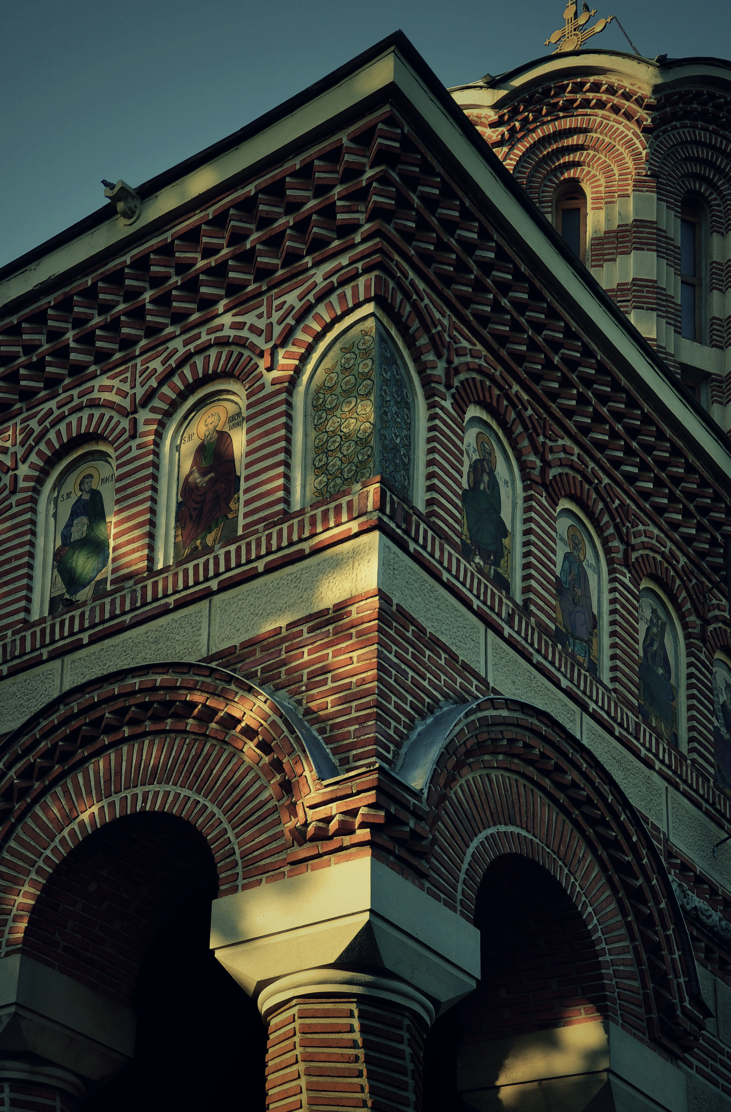 Samurcasesti Monastery, in Ciorogarla village, Ilfov county, near Bucharest